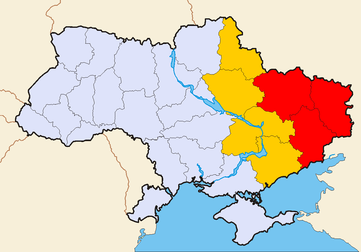 Eastern Ukraine. Filled with red - always included. With yellow - sometimes included. See also